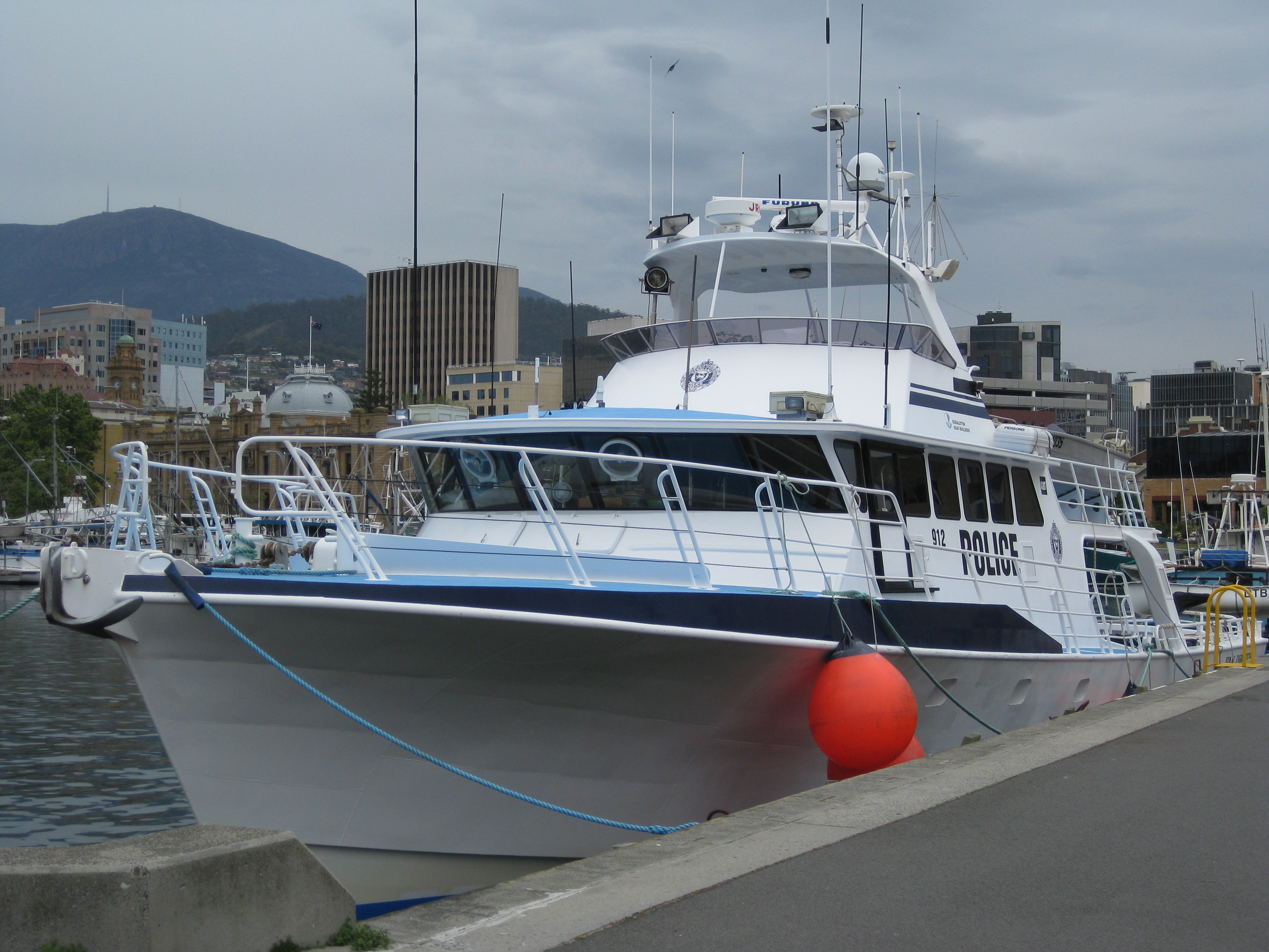 A Tasmanian Police boat docked at Sullivans Cove in Hobart